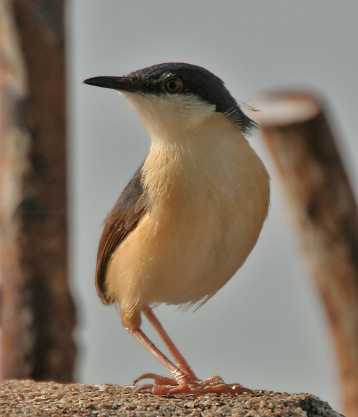 Ashy Prinia Prinia socialis in Hyderabad, India.